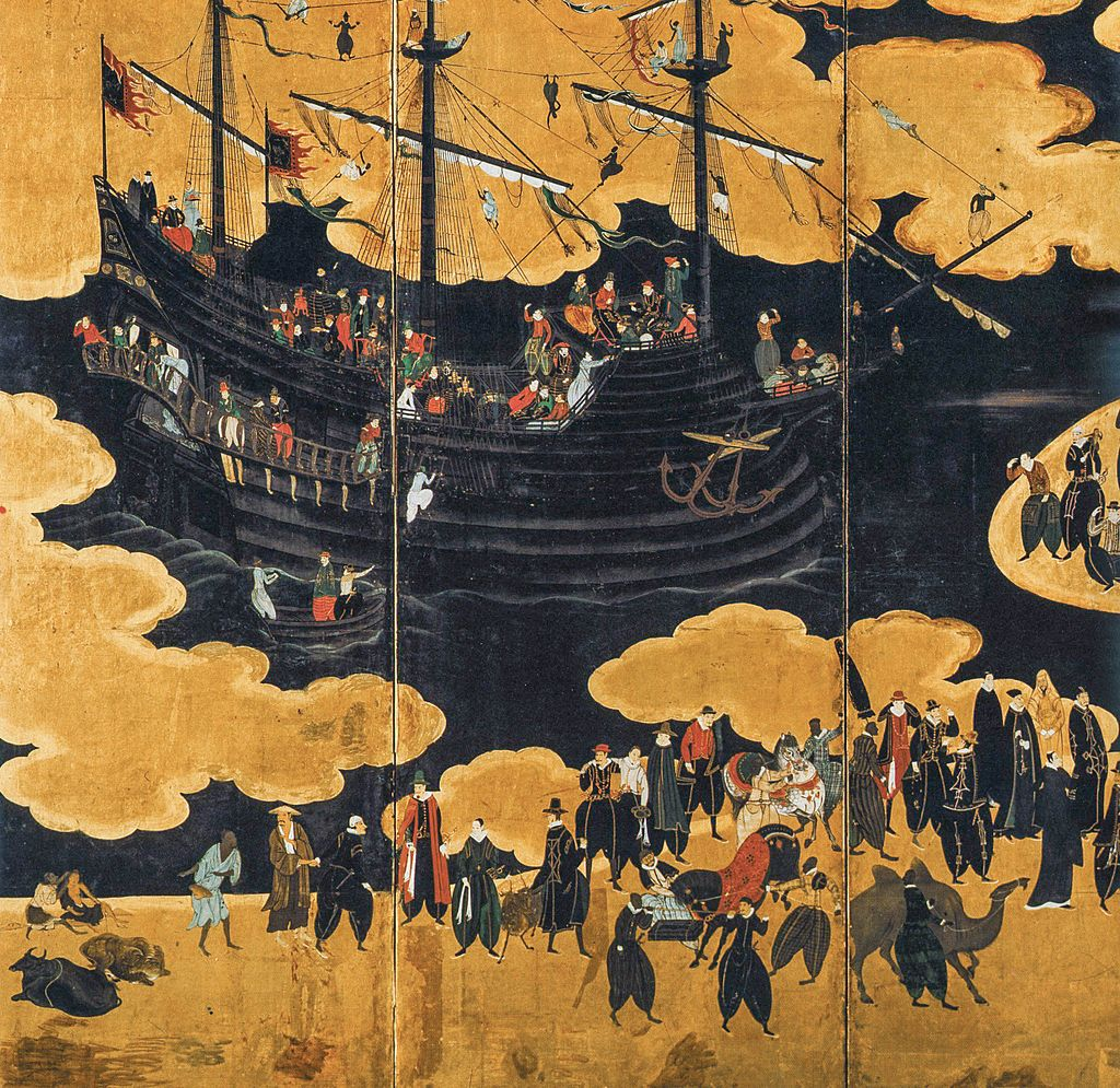 Portuguese Trading Ship in Japan in the 16th century.